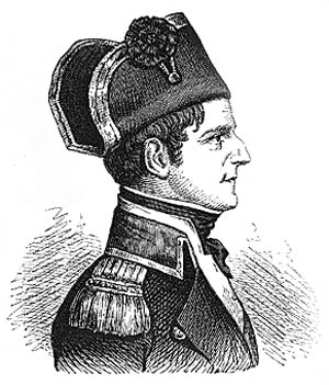 picture of Olfert Fischer (1747 – 1829), officer of the Royal Danish Navy